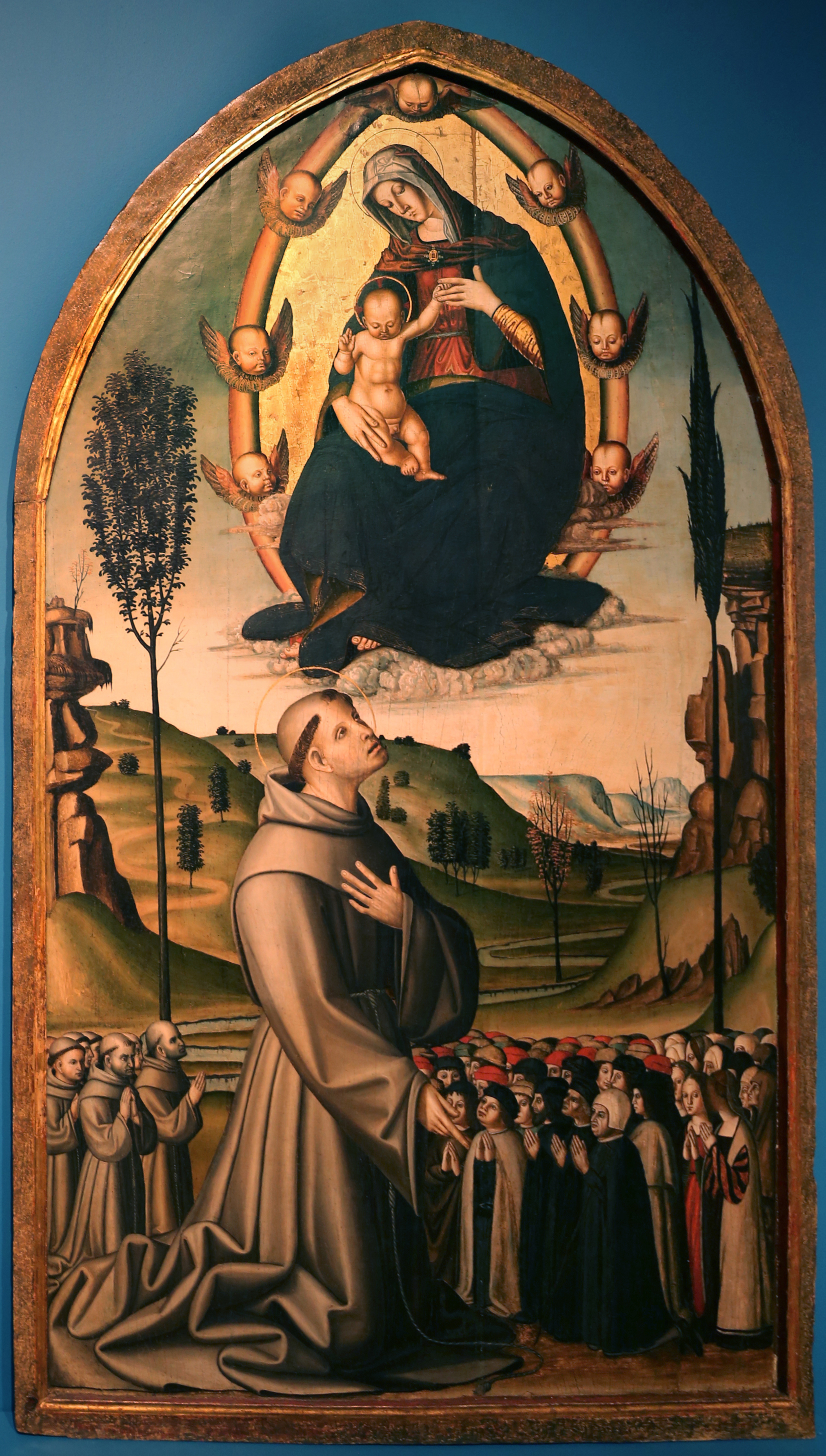 Capolavori Sibillini (2017-2018 exhibition)